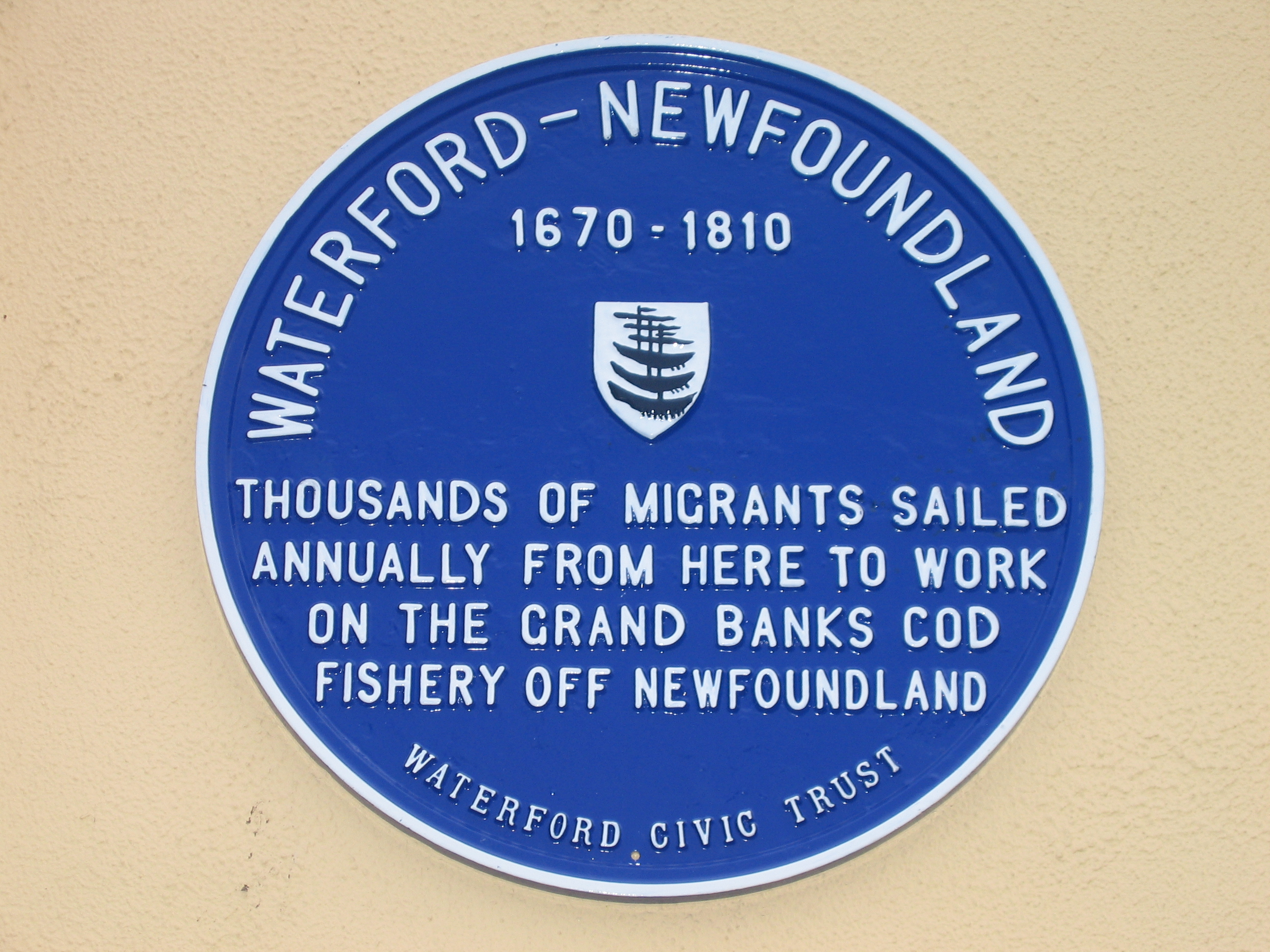 Plaque in Waterford, Ireland honoring Irish Newfoundlanders.